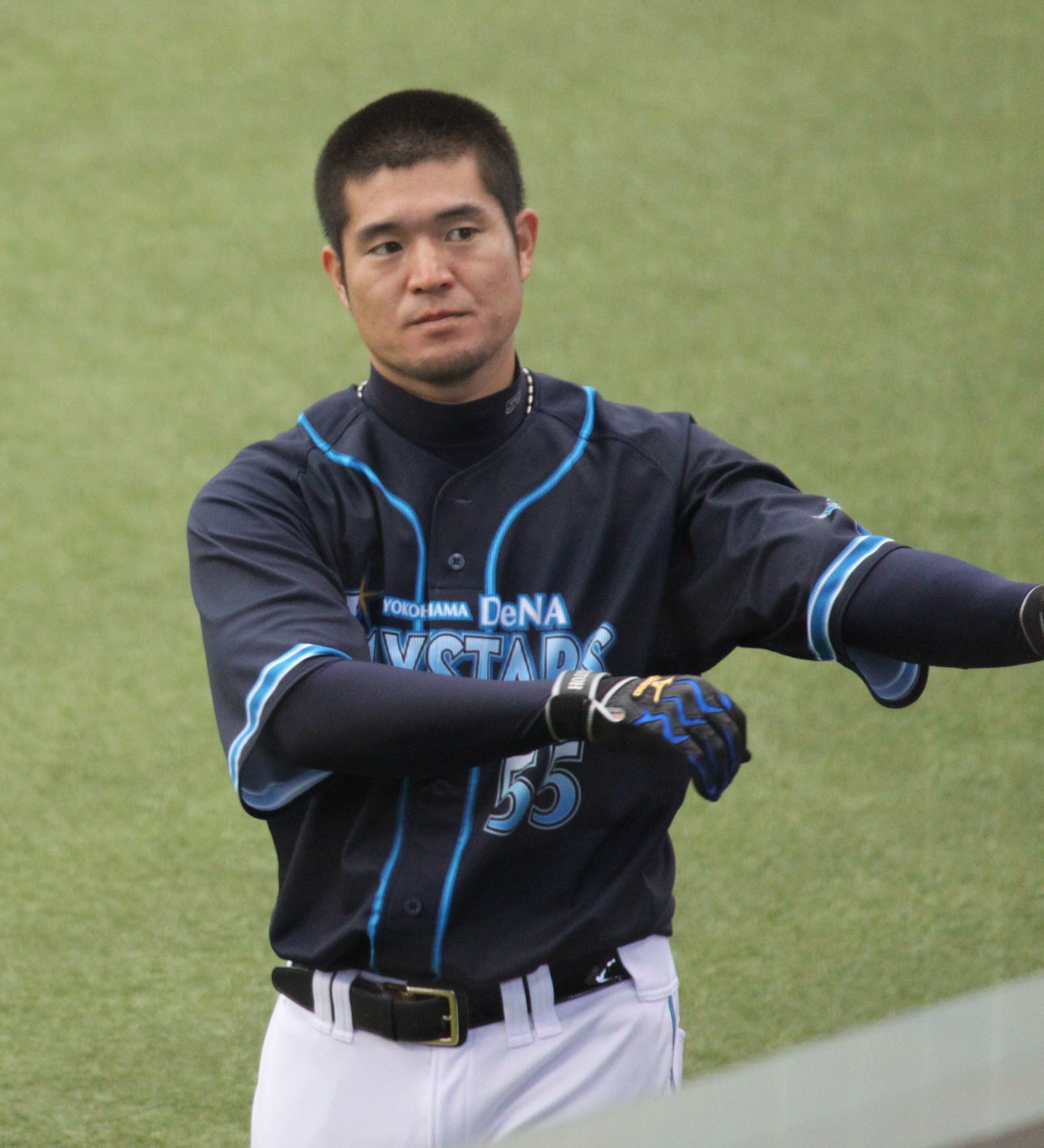 Taketoshi Gotoh, infielder of the Yokohama DeNA BayStars, at Seibu Dome.